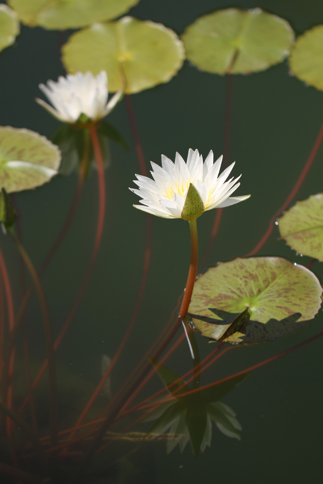 Jindai botanical gardens has a fantastic nymphaea. 神代植物公園のスイレンはとってもすてきです。 Canon EOS 7D + Canon EF 100mm F2.8L Macro IS USM